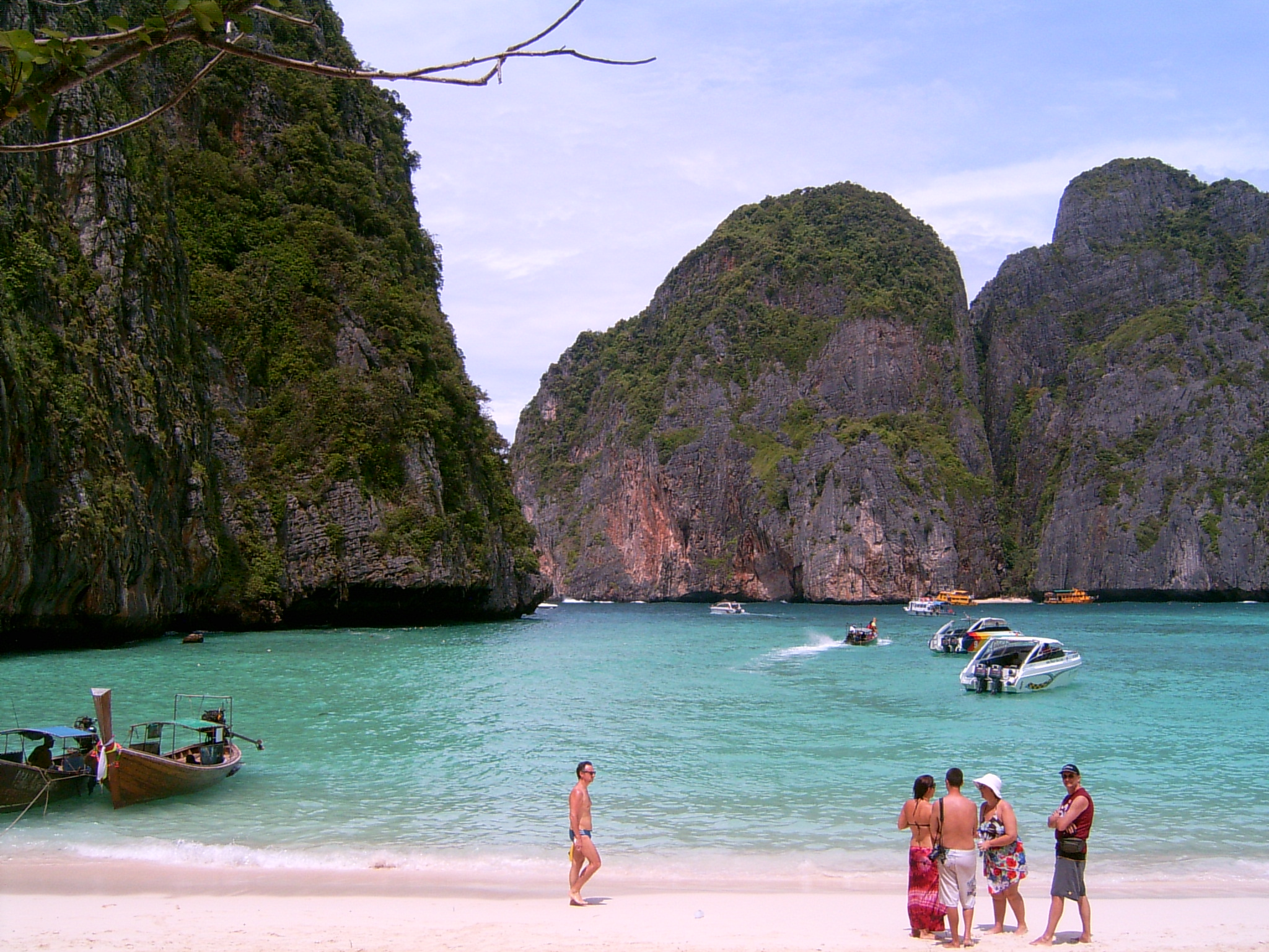 The Beach of Koh Phi Phi Leh in southern Thailand.